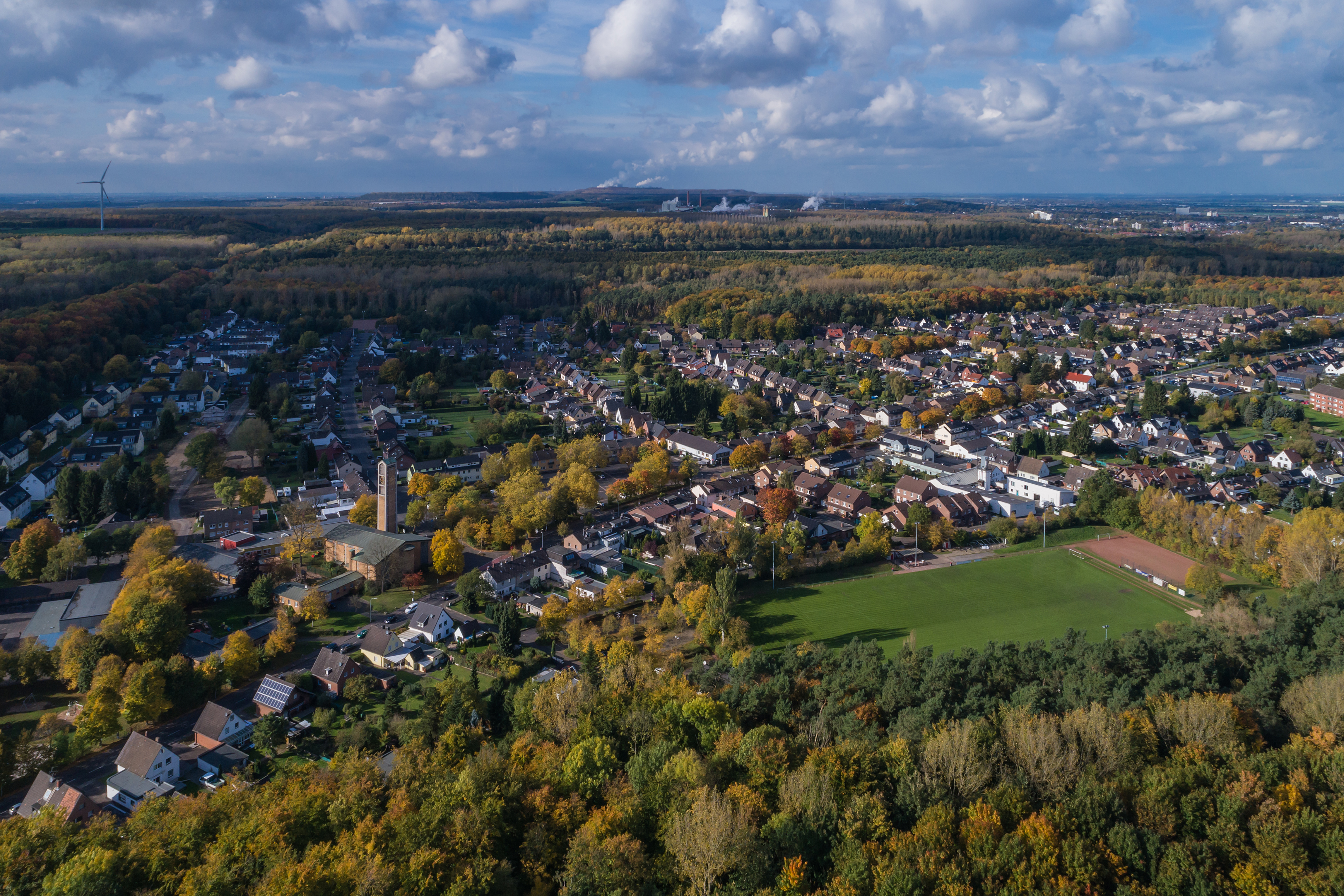 Aerial photo Hürth-Berrenrath, Rhein-Erft-Kreis (Germany)